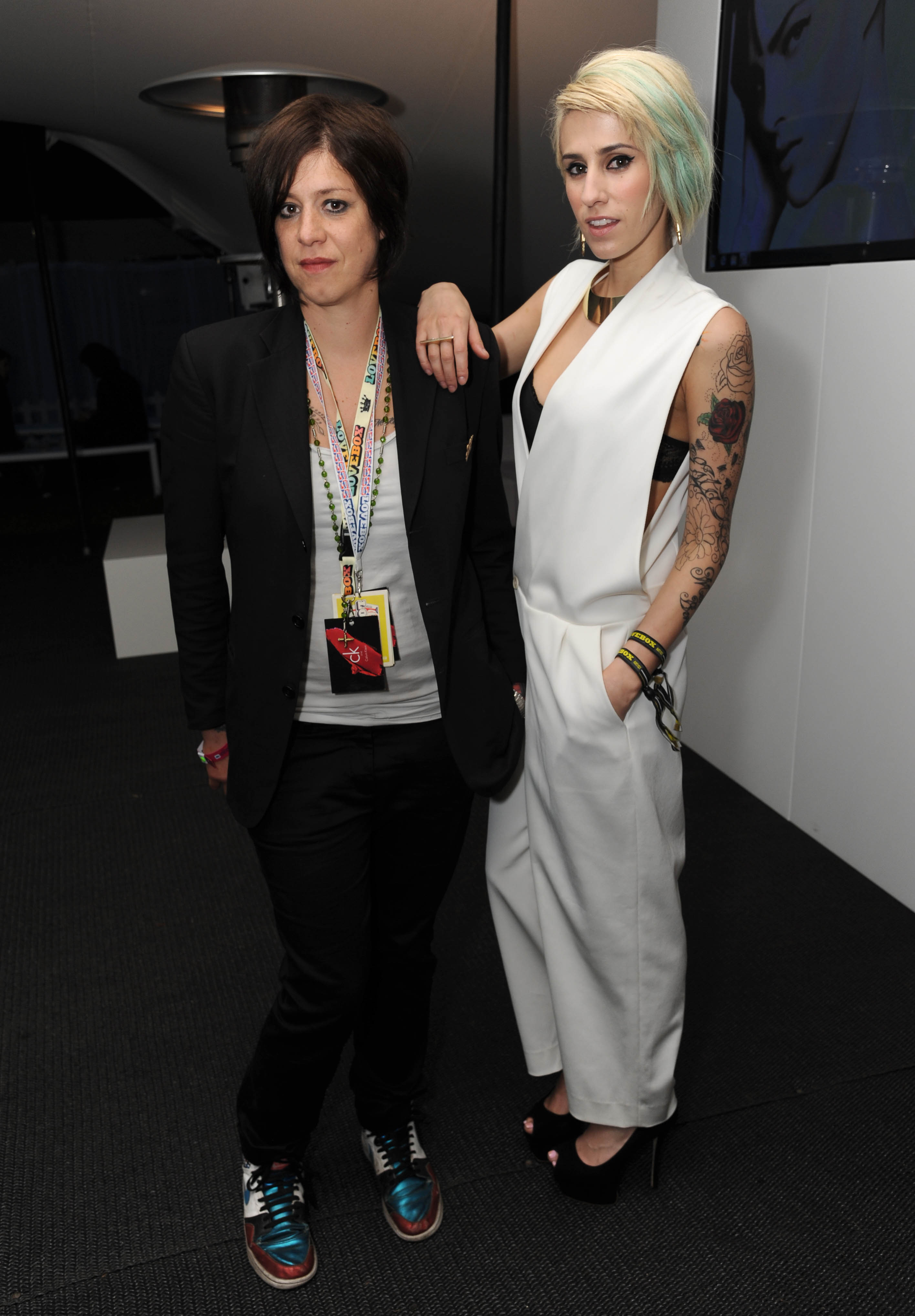 El Conchitas with signer Dev at the CK1 artists area at The Lovebox Festival 2012. DJ El Conchitas